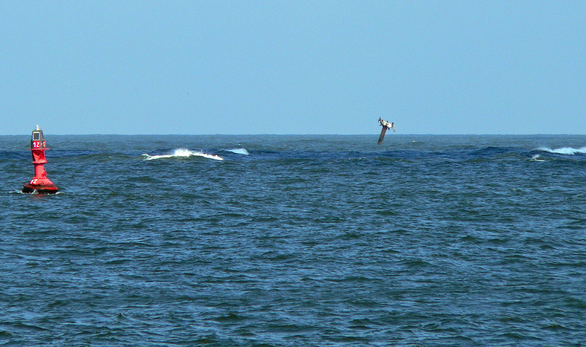 Wreck of the 'Fides' on the 'Grosser Vogelsand'